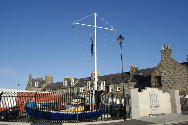 Flag Standard Part of TS Scylla (Sea Cadet Corps) at Pocra Quay, Aberdeen